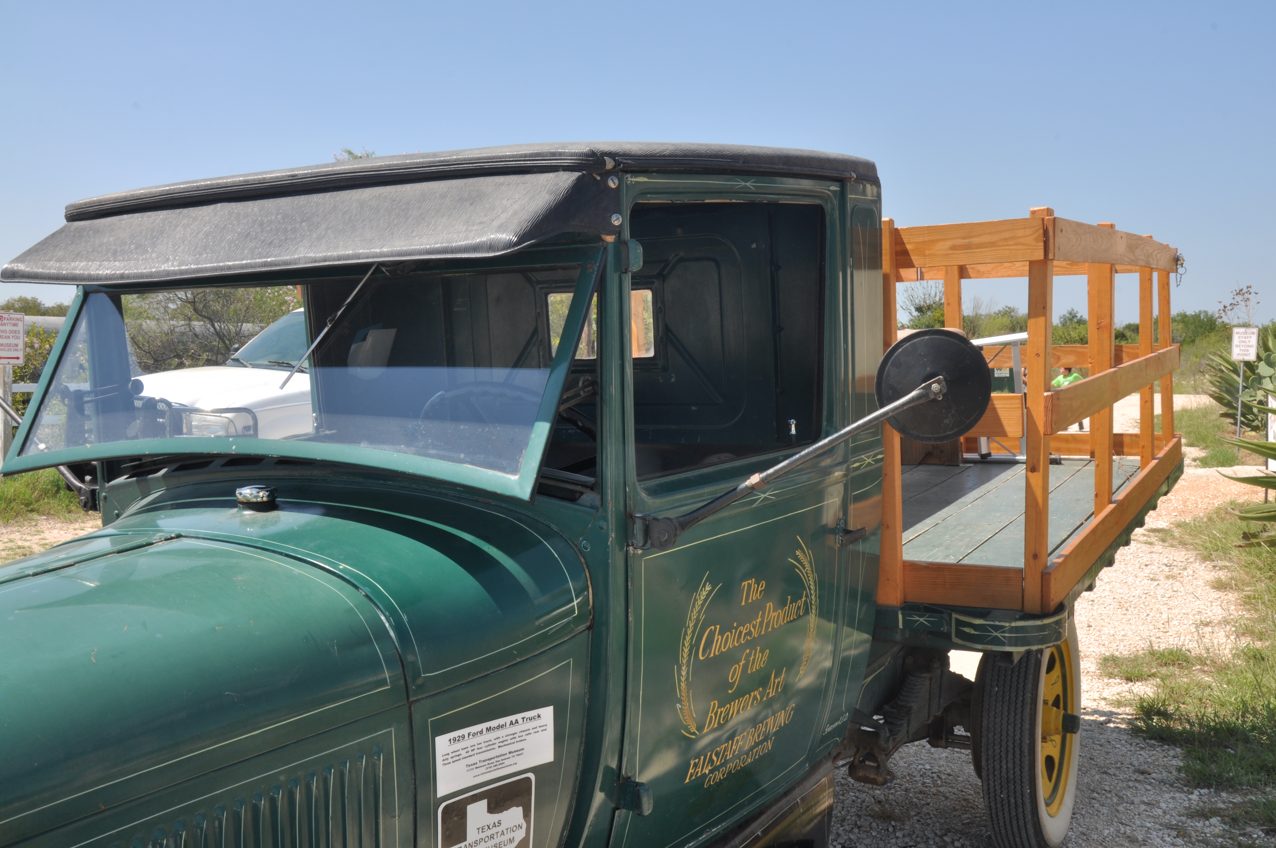 1929 Ford Model AA Truck at Texas Transportation museum in San Antonio, Texas